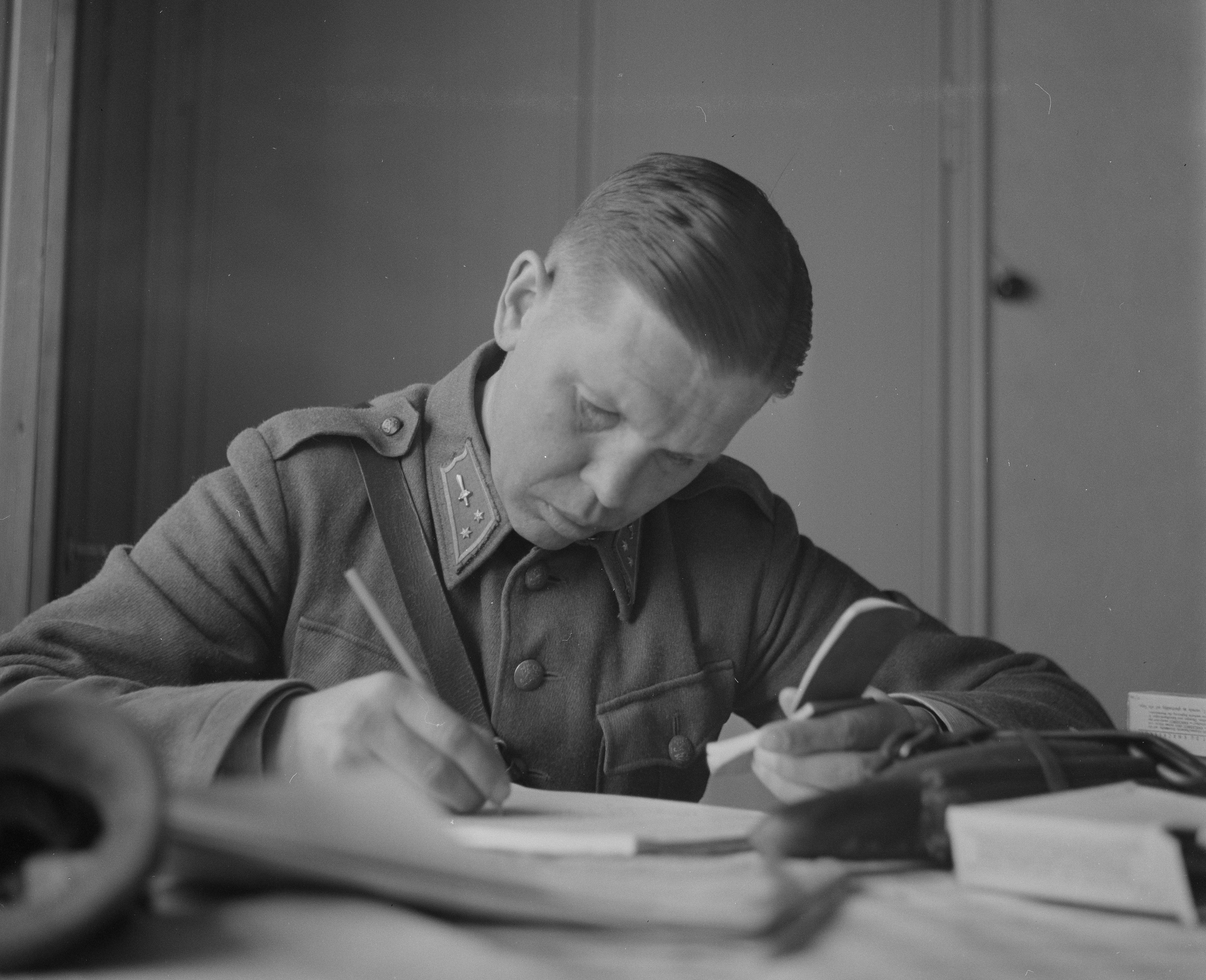 Photograph of the Finnish photographer Osvald Hedenström (1913–1998) writing captions in Savukoski.